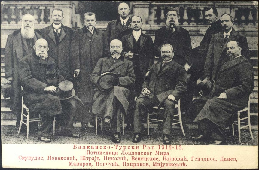 Delegates of Balkan States at the London Conference of 1912–13. From left to right: Stephanos Skouloudis (Greece), Stojan Novakovic (Serbia), Georgios Streit (Greece), Andra Nikolic (Serbia), Eleftherios Venizelos (Greece), Lujo Vojnovic (Montenegro), Ioannis Gennadios (Greece), Stoyan Danev (Bulgaria), Michail Madjarov (Bulgaria), Jovo Popovic (Montenegro), Stefan Paprikov (Bulgaria), Lazar Mijushkovic (Montenegro).